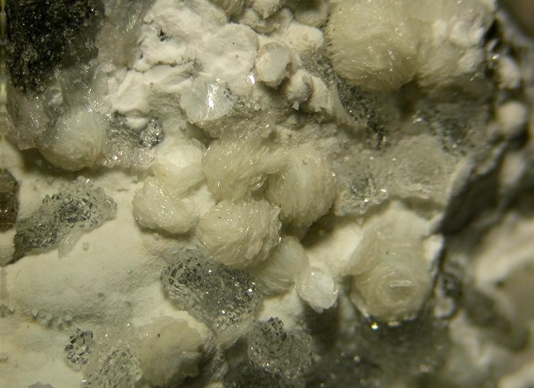 Motukoreaite, Phillipsite Locality: Stradner Kogel Mt., Wilhelmsdorf, Bad Gleichenberg, Styria, Austria Yellowish-white balls of Motukoreaite together with Phillipsite. Field of view 6 mm. Depth of field is achieved with CombineZM. Specimen and photo Leon Hupperichs.